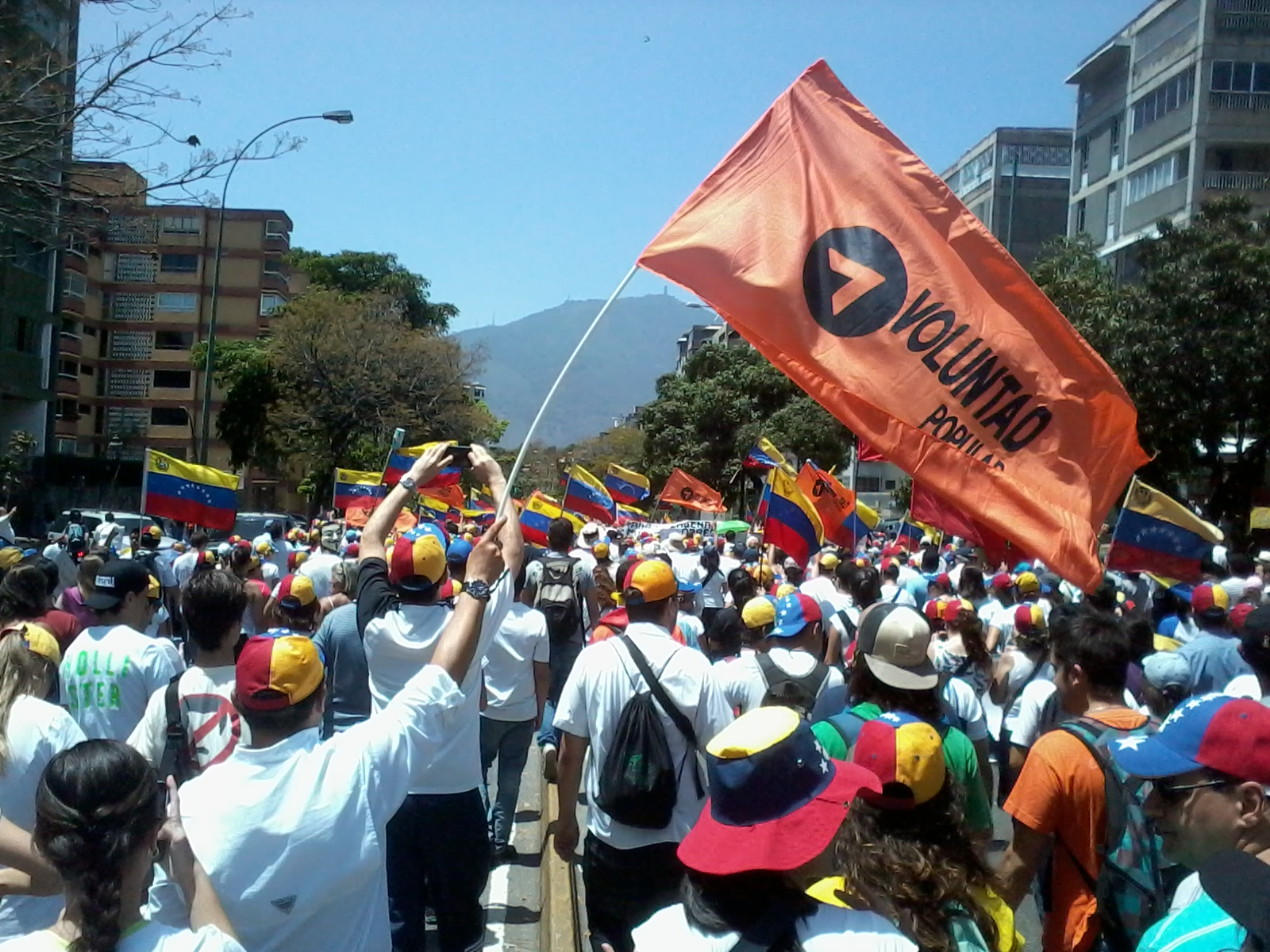 An opposition rally supporting Leopoldo López. Protesters are waving Venezuelan and Popular Will flags.